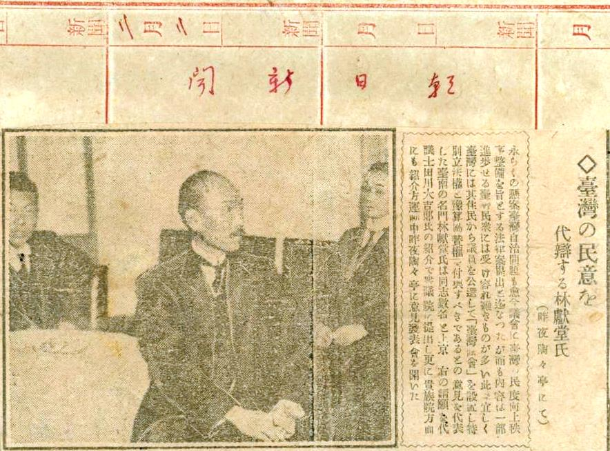 1881/10/22－1956/9/8; 1921/02/02 in Japan for the Establishment of Taiwan Assembly